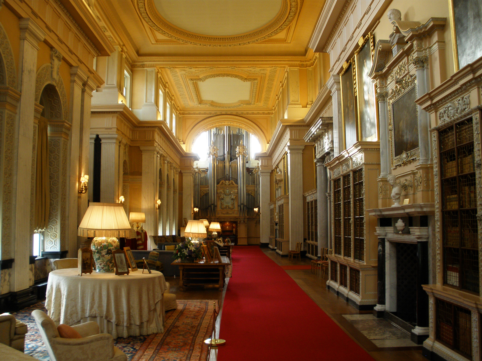 Blenheim Palace in Woodstock, Oxfordshire, England. Library.